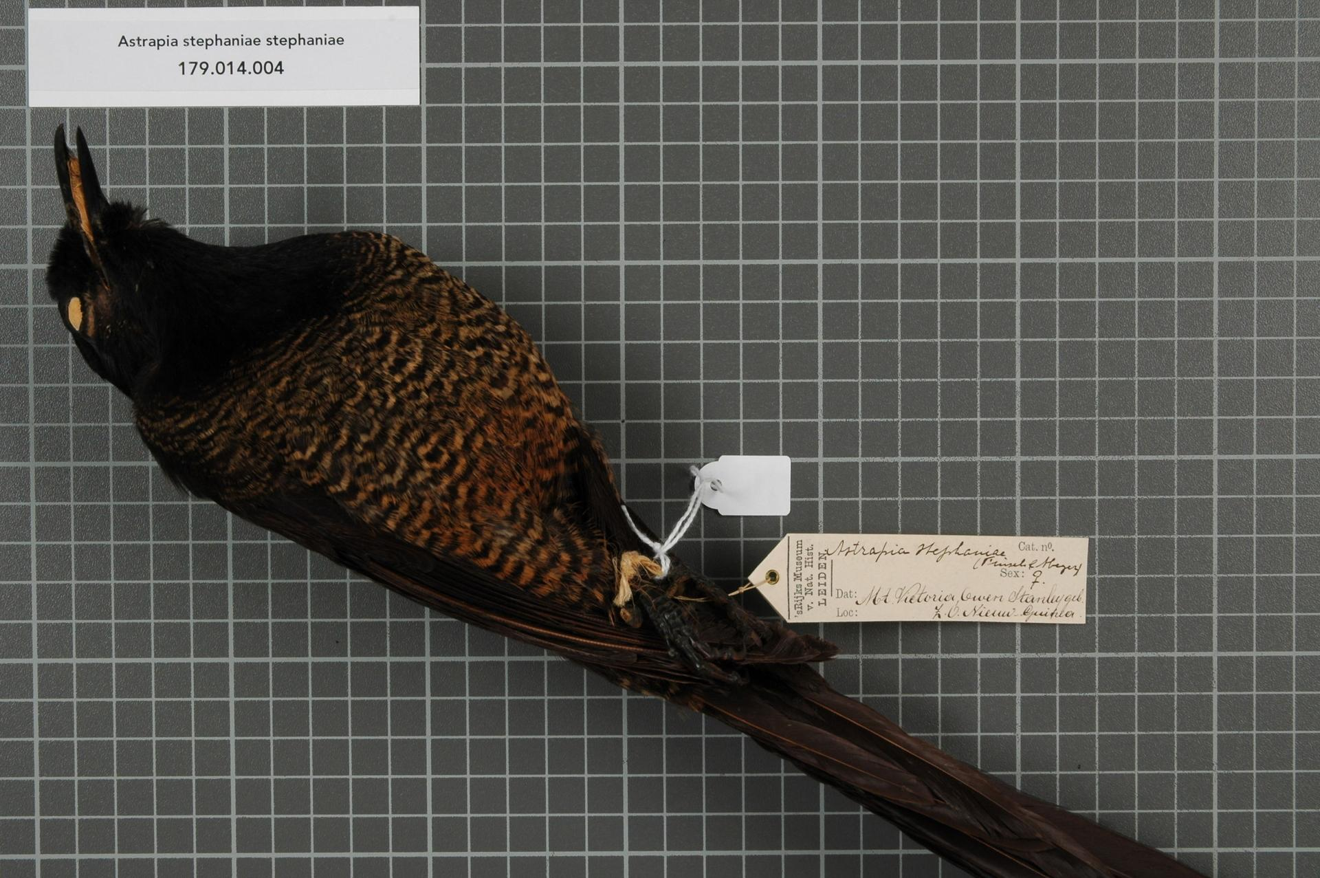 Astrapia stephaniae stephaniae (Finsch, 1885)